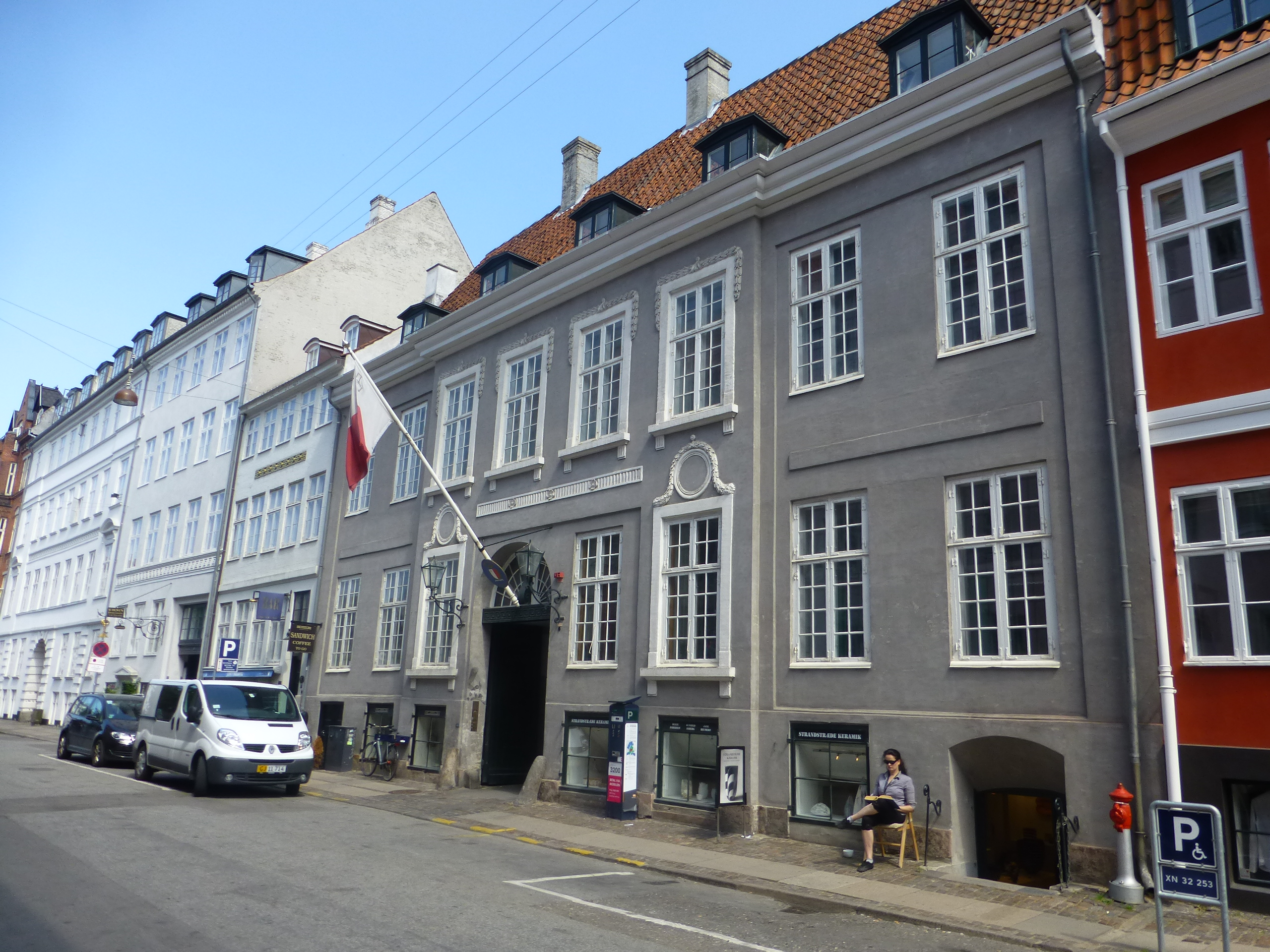 The embassy of Malta in the street Lille Strandstræde in Indre By, Copenhagen.